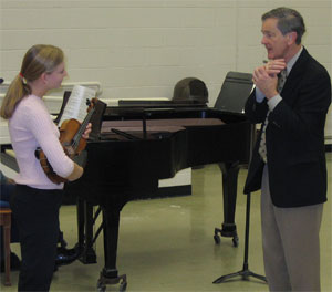 Rodney Schmidt Taken by myself with my own camera, from my iPhoto to you! Picture taken 12/2/2005 at 7:16 AM Event was a masterclass given by Stephen Clapp at East Carolina University.